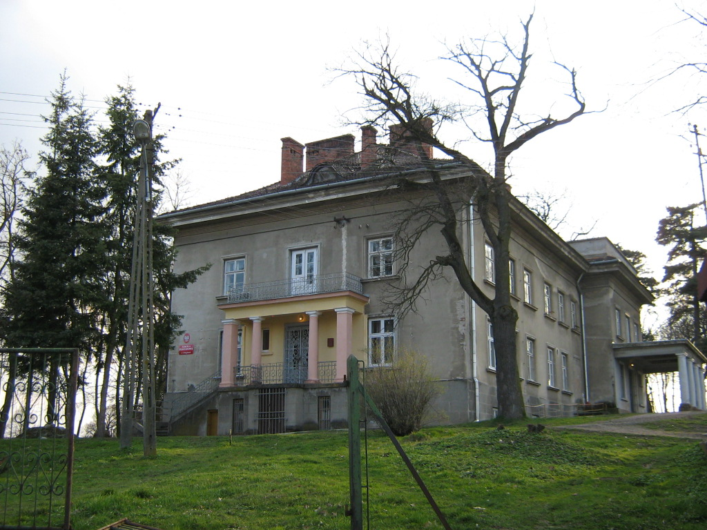 Lisowiecki's Court